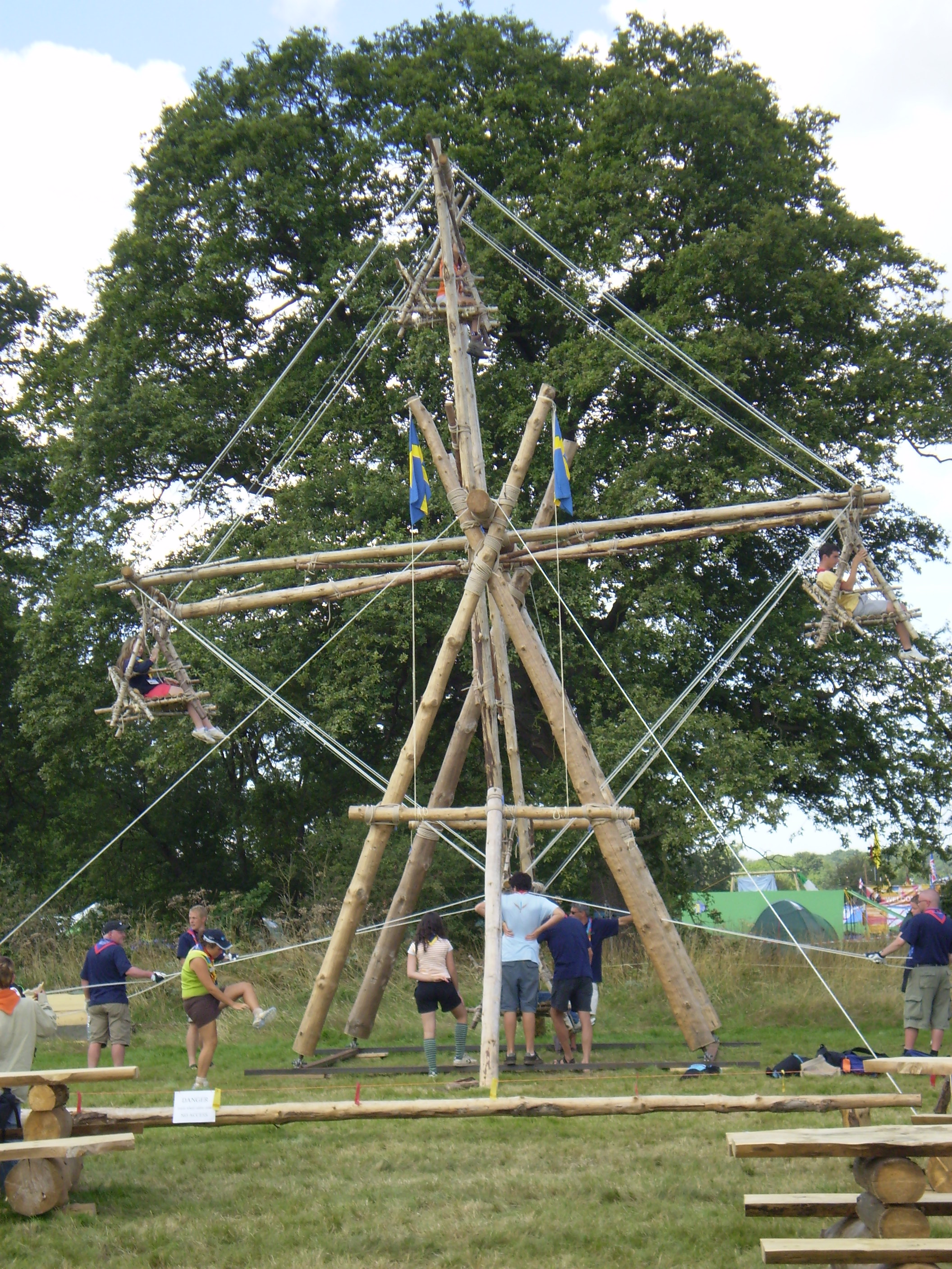 Panoramic wheel at the Swedish base at the 21st World Scout Jamboree